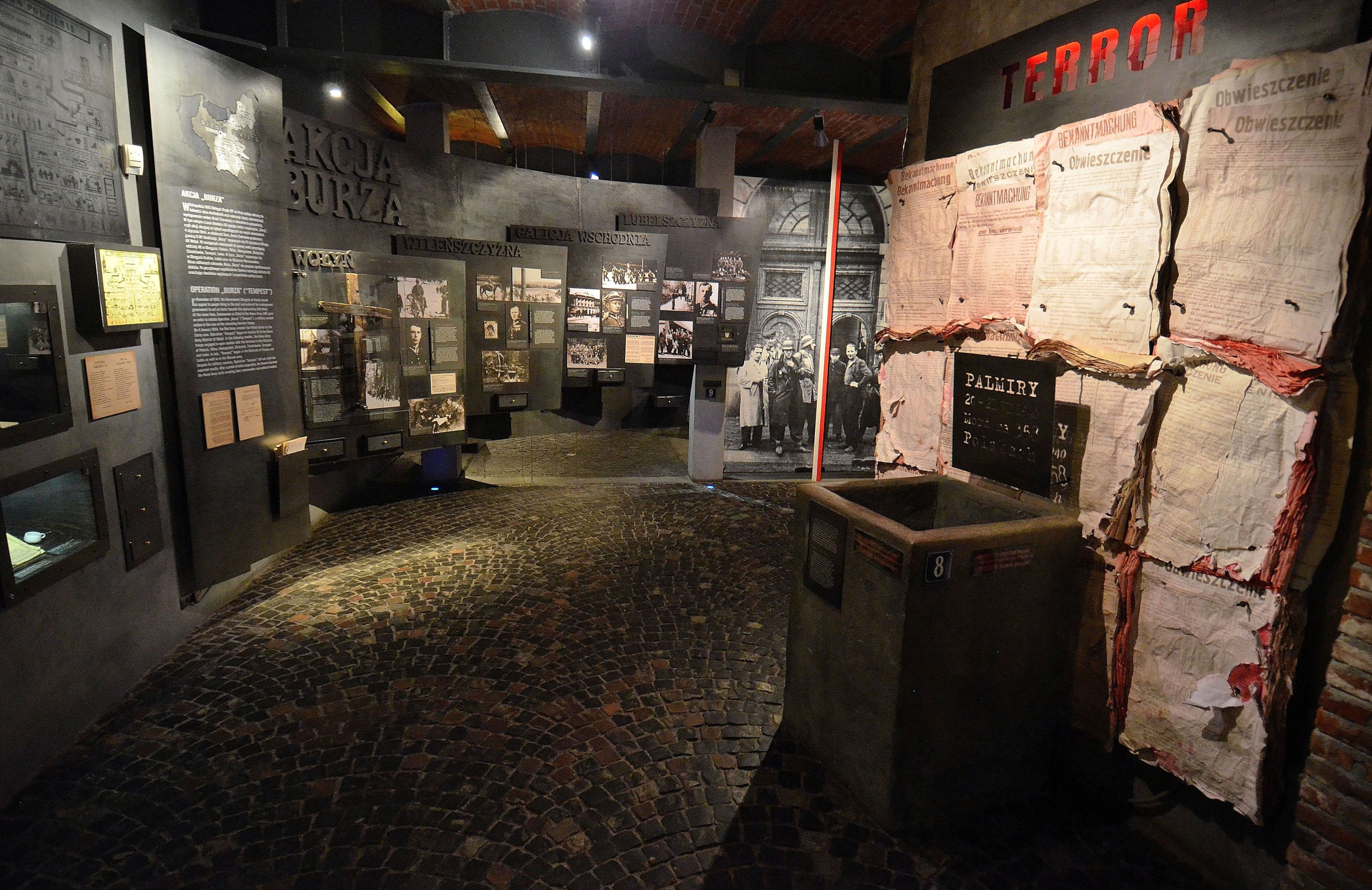 Warsaw Uprising Museum English | polski | +/−